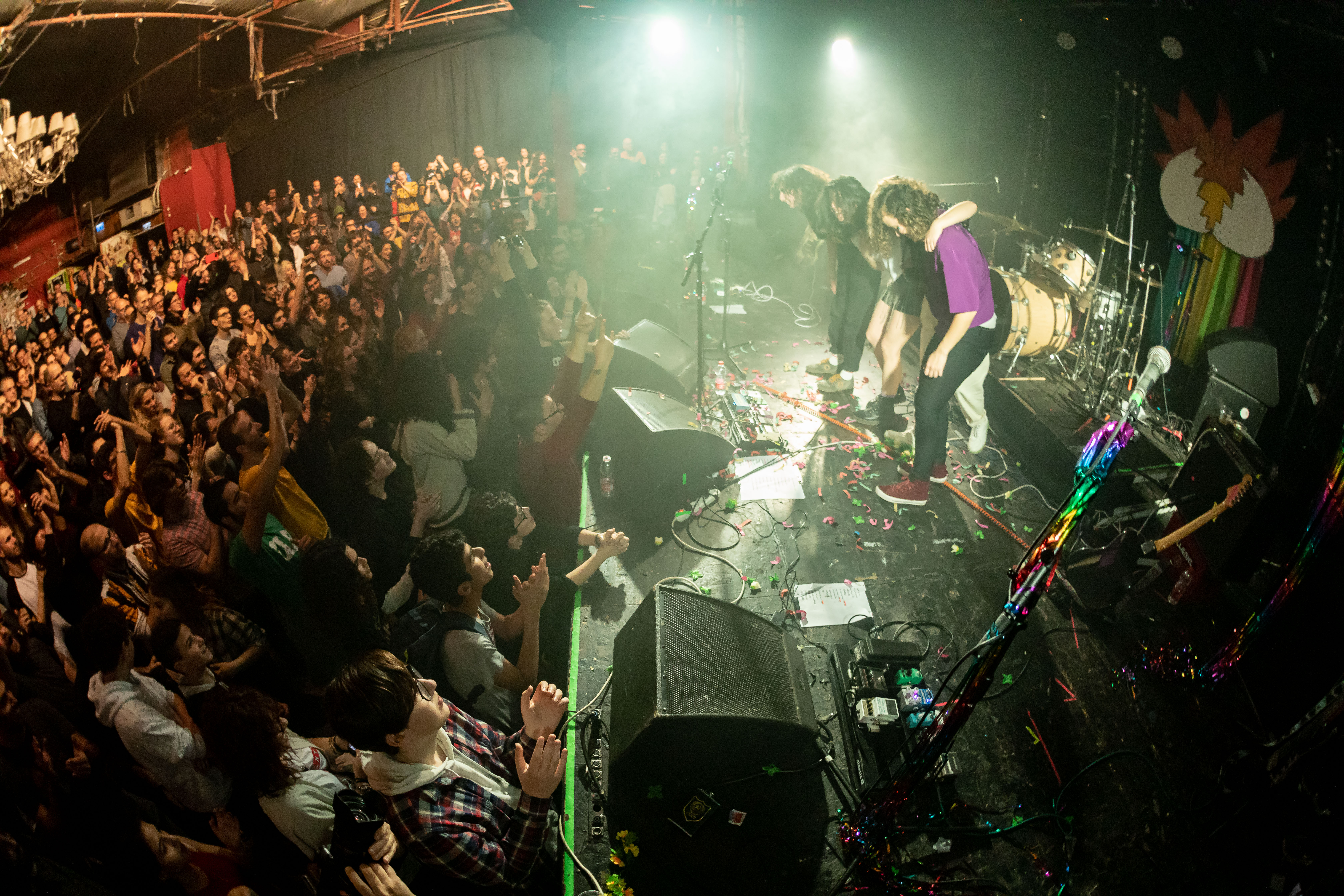 Haze'evot, 2020